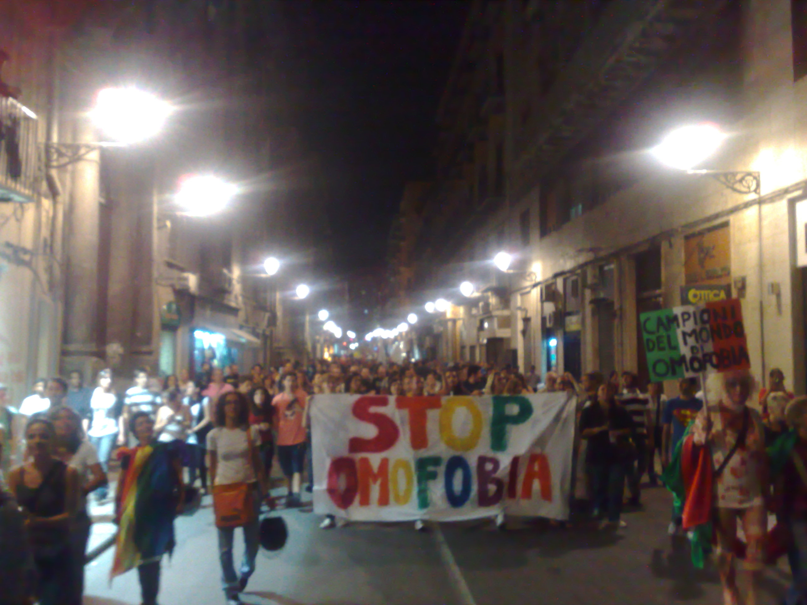 Palermo against homophobia, protest in Palermo (2009).